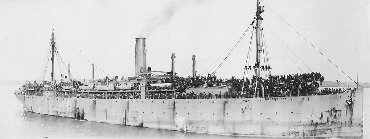 USS Minnesotan (ID # 4545) Arriving in a U.S. port, while bringing American troops home from Europe in 1919. Location may be Charleston, South Carolina. Panoramic photograph by Sargeant, Columbia, S.C. Donation of Dr. Mark Kulikowski, 2007. U.S. Naval Historical Center Photograph.